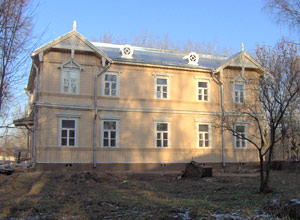 Флигель в усадьбе Любимовка.